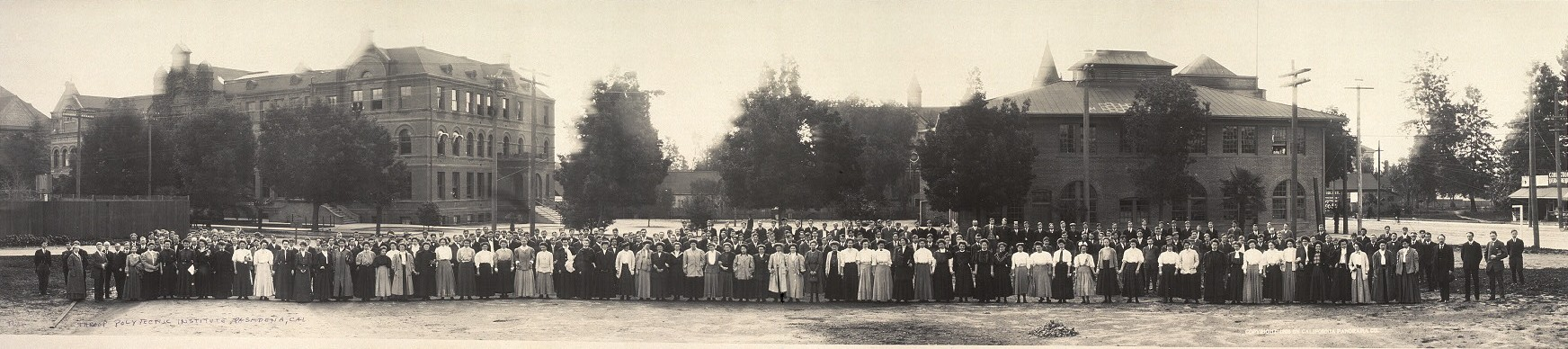 Throop Polytecnic [sic] Institute, Pasadena, Calif..